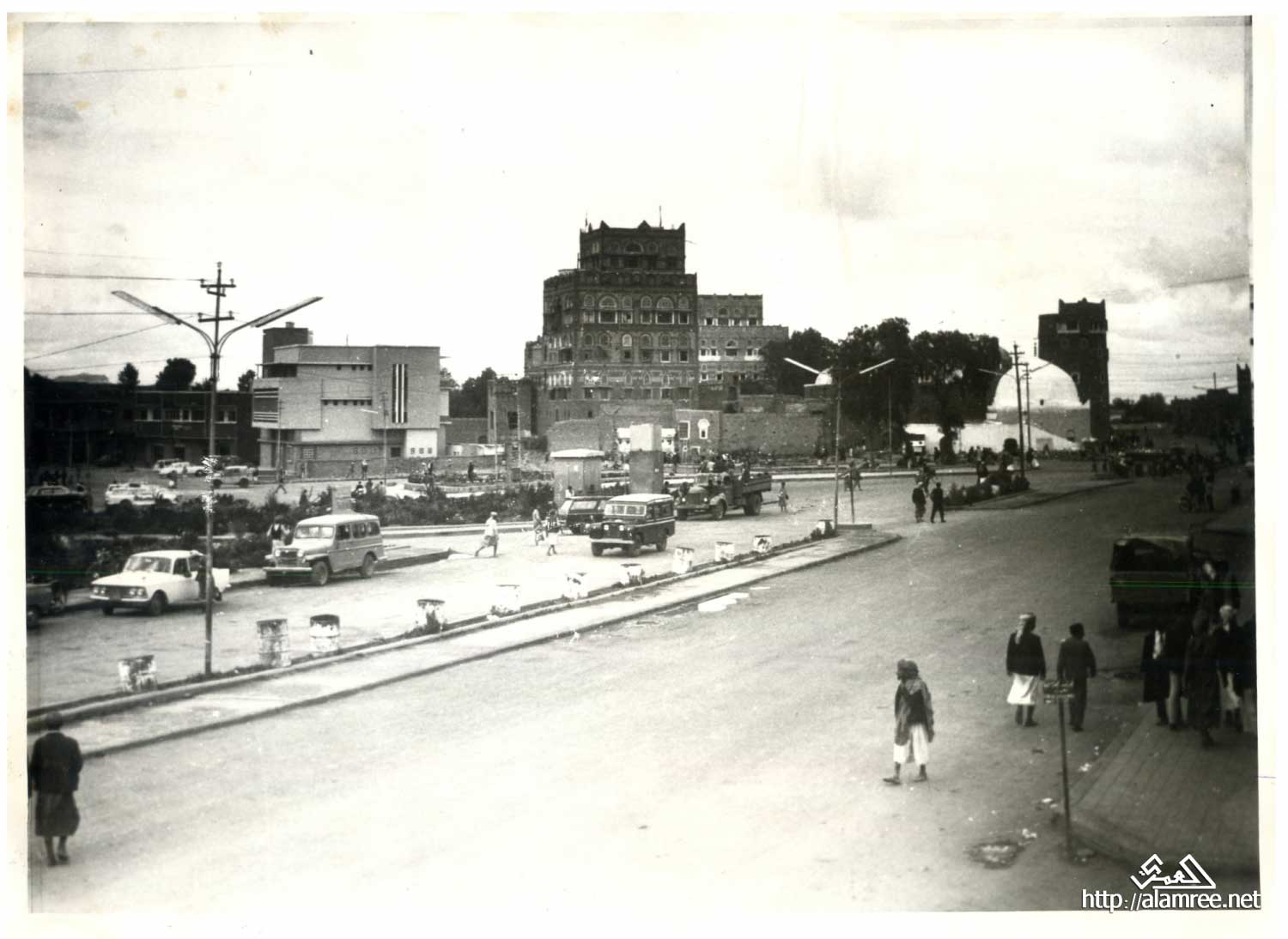 Tahrir Square in Sanaa 1967.jpg